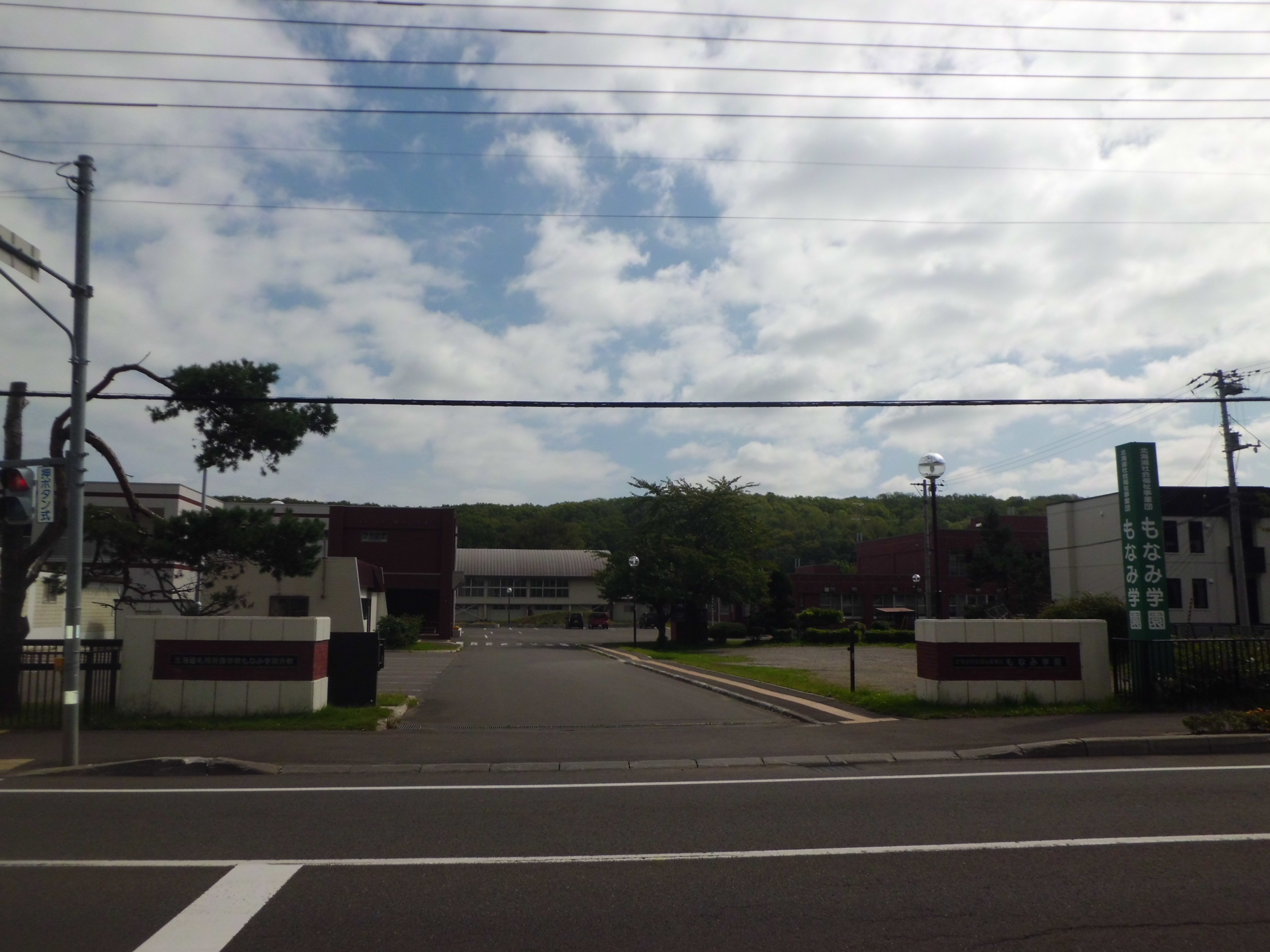 Hokkaido Sapporo Special Support School Monami Branch